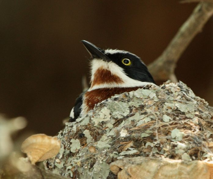 Female chinspot batis (Batis molitor) on her nest; built using shredded bark and grass, bound with spider web silk, and decorated with lichen. Ngwenya Lodge, Mpumalanga, South Africa.